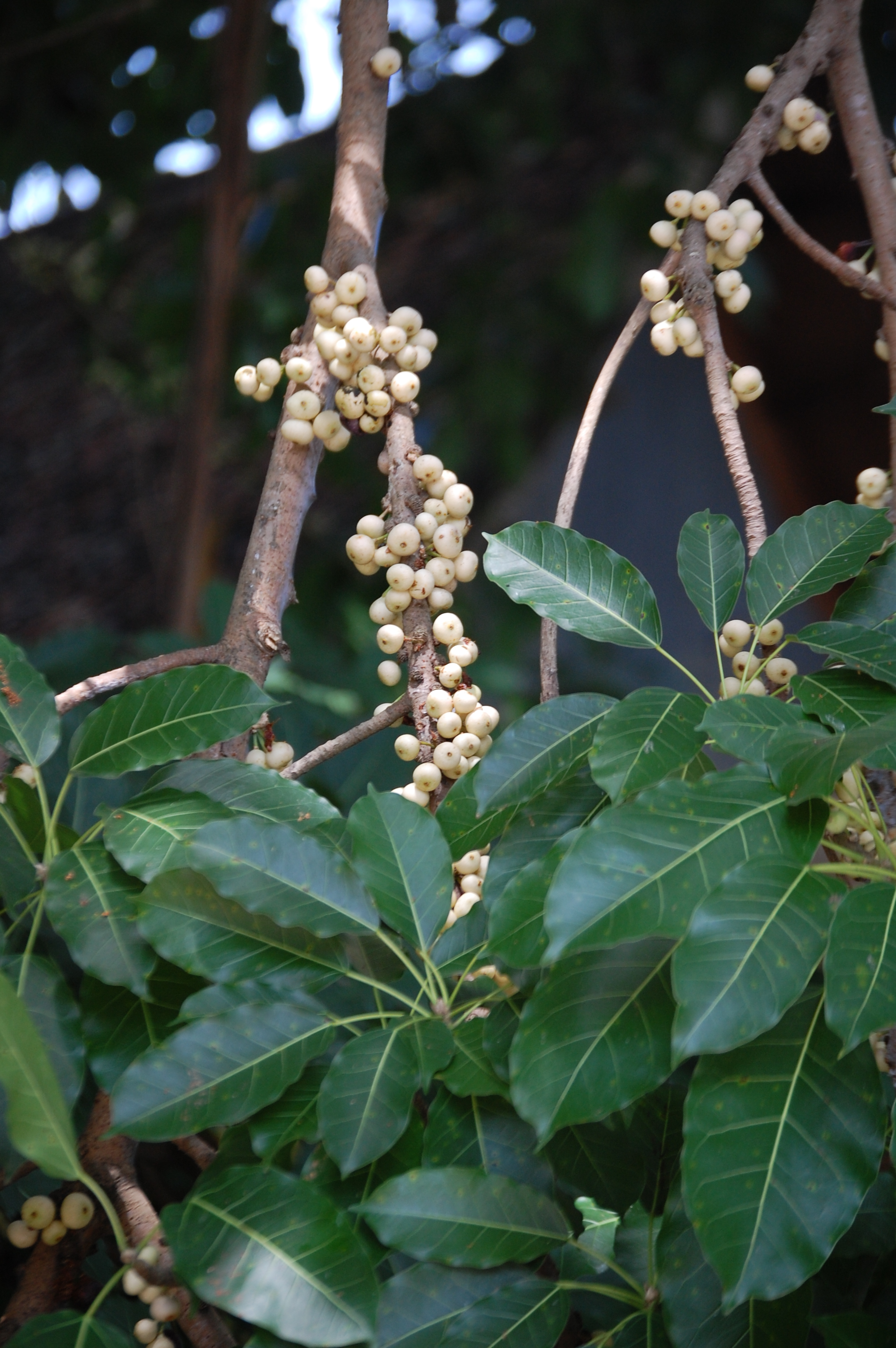 Ficus racemosa